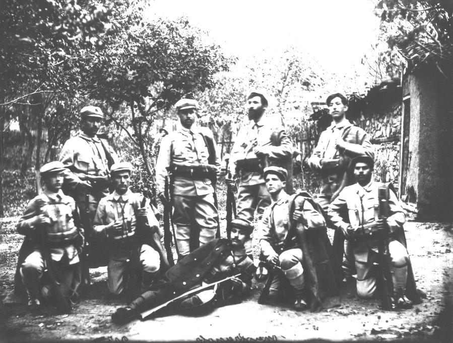 Cheta of Thessaloniki IMARO voevoda Todor Orovchanov